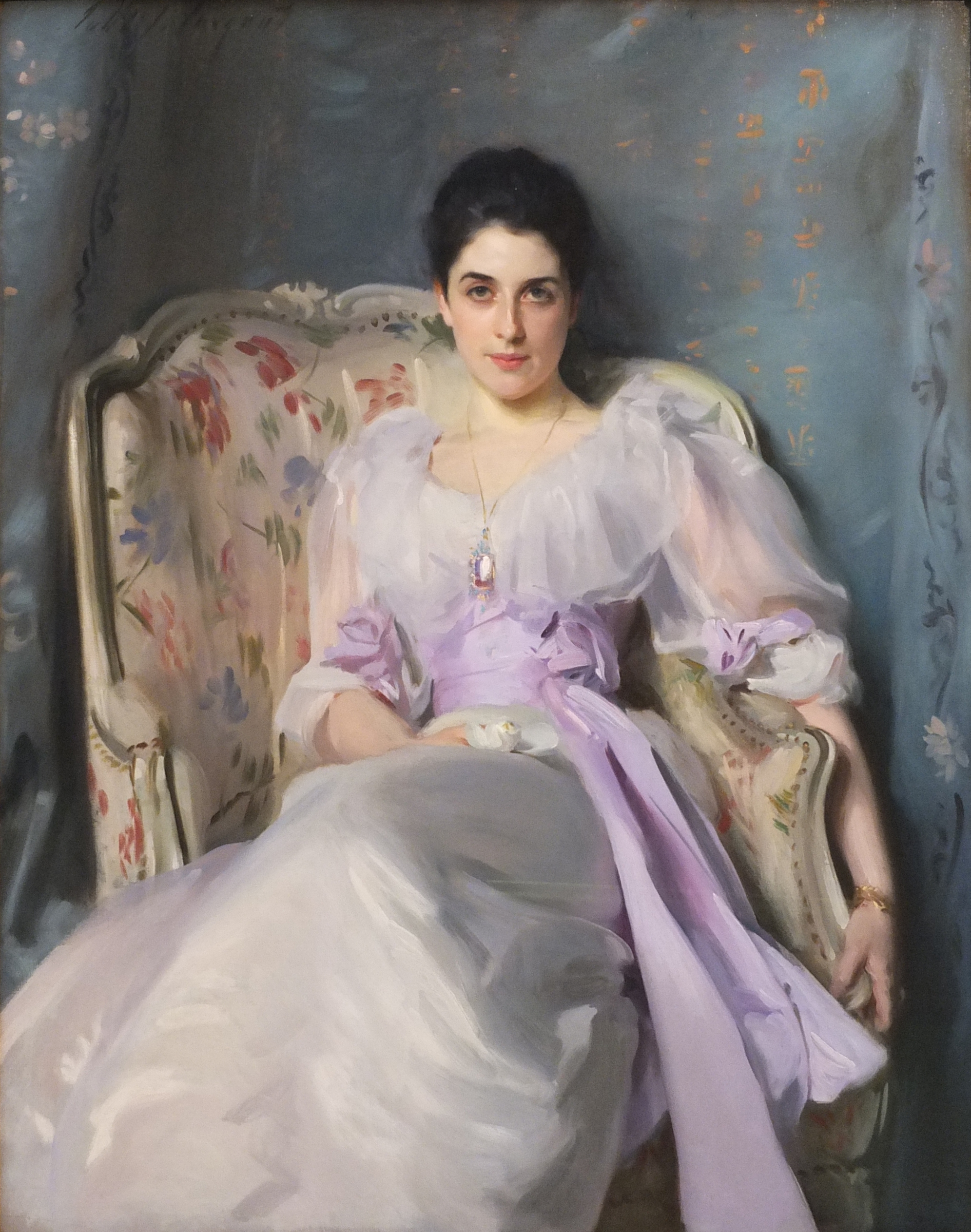 Lady Agnew's direct gaze and informal pose, emphasised by the flowing fabric and lilac sash of her dress ensure the portrait's striking impact.